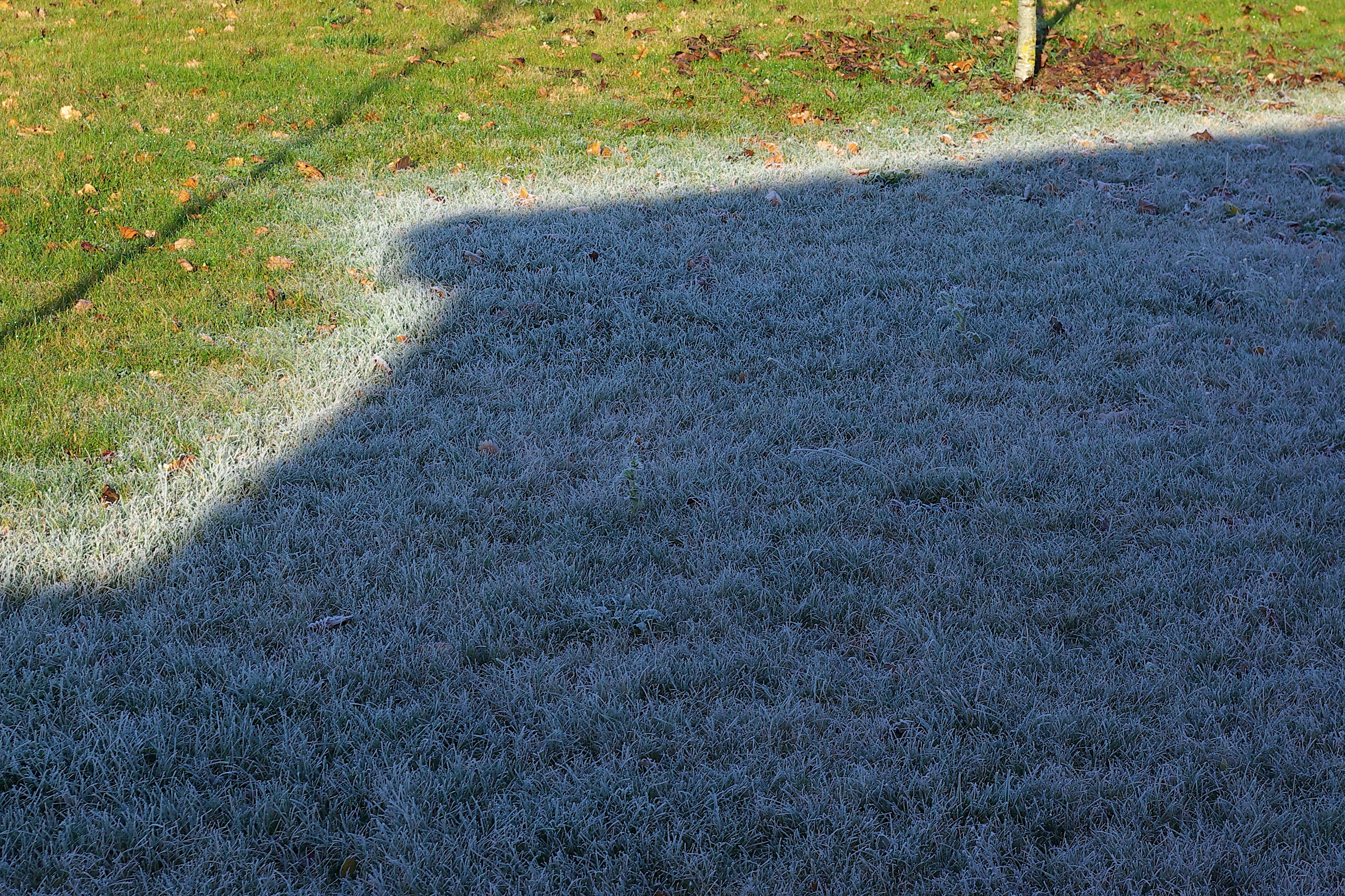 Hoar frost remaining in the shadow and melting in the sun. Saint-Amant, Charente, France.